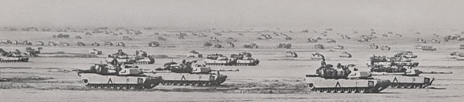 One Brigade of the U.S. 3rd Armored Division masses in northern Saudi Arabia in preparation for the invasion of Iraq during the Gulf War, February 1991.